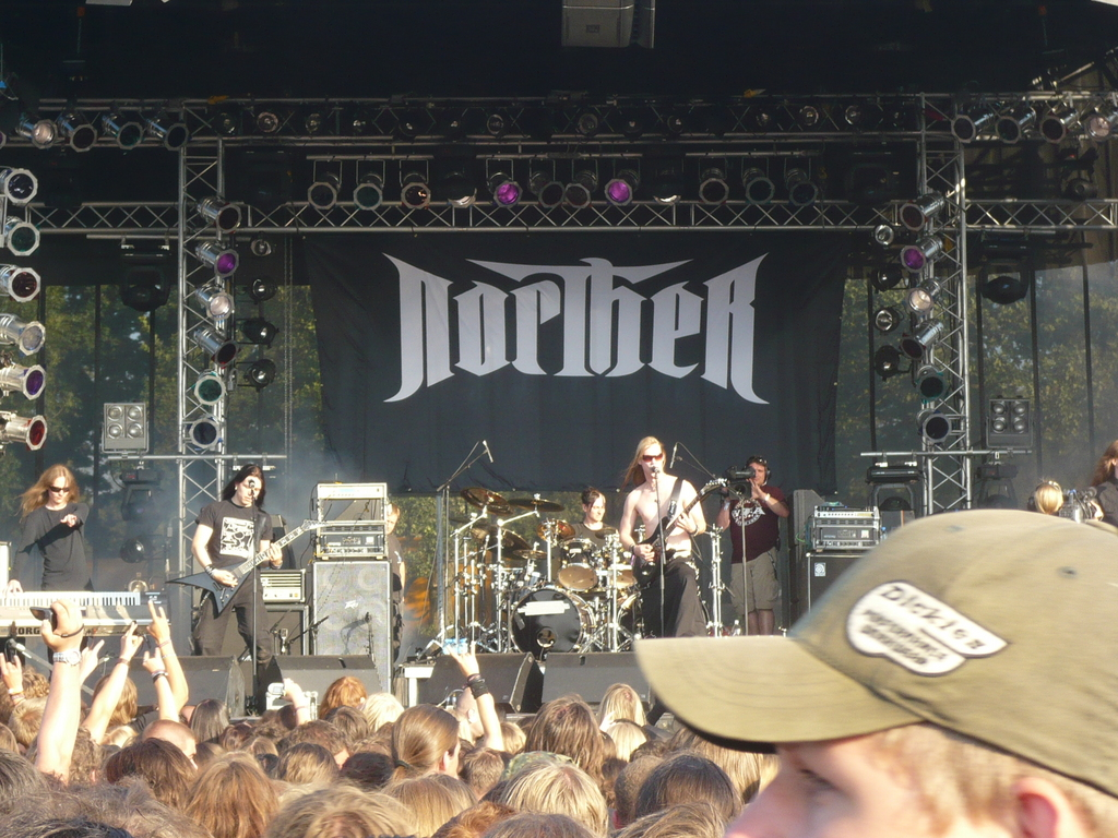 Norther playing at Wacken